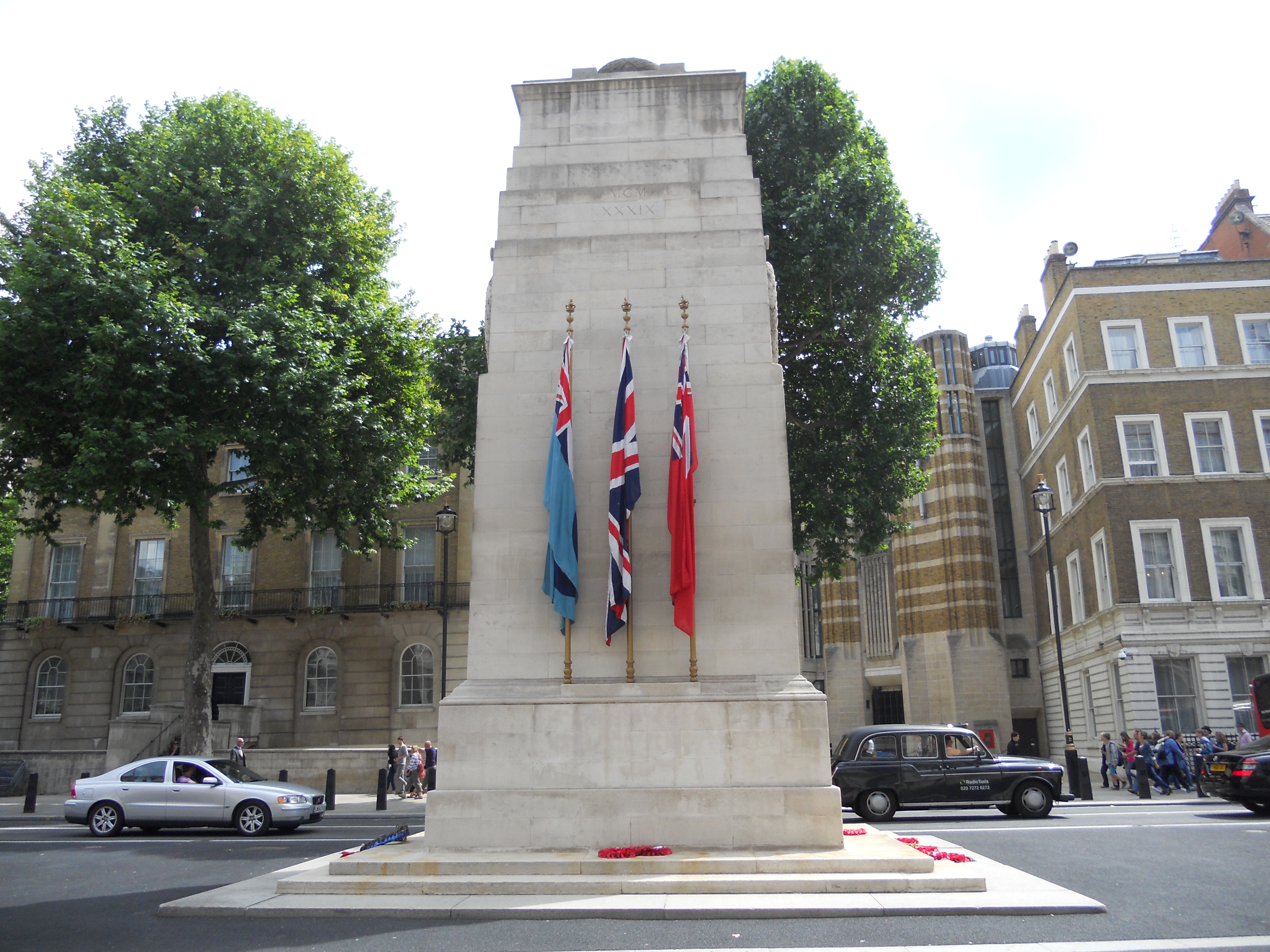 The Cenotaph, Whitehall, London. Part of a series taken from different angles.